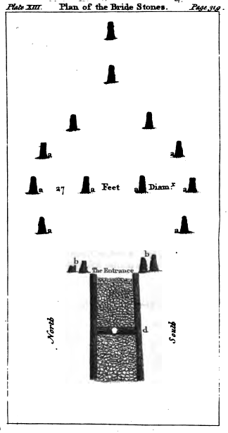 Plan of The Bridestones near Congleton, Cheshire, taken from Second Edition (1766) of Mona Antiqua Restaurata by Henry Rowlands